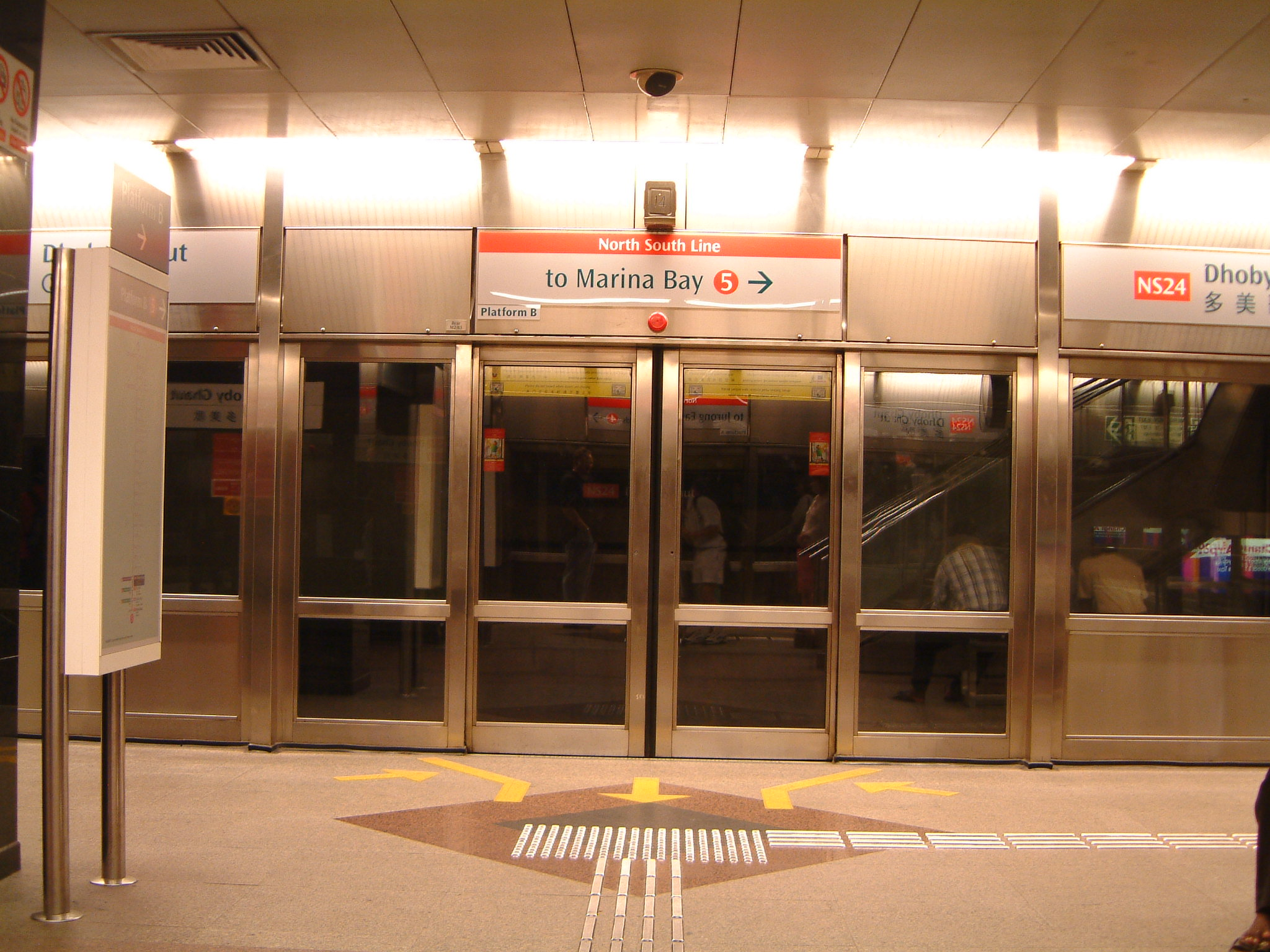 Platform screen doors of Dhoby Ghaut MRT station. Singapore.